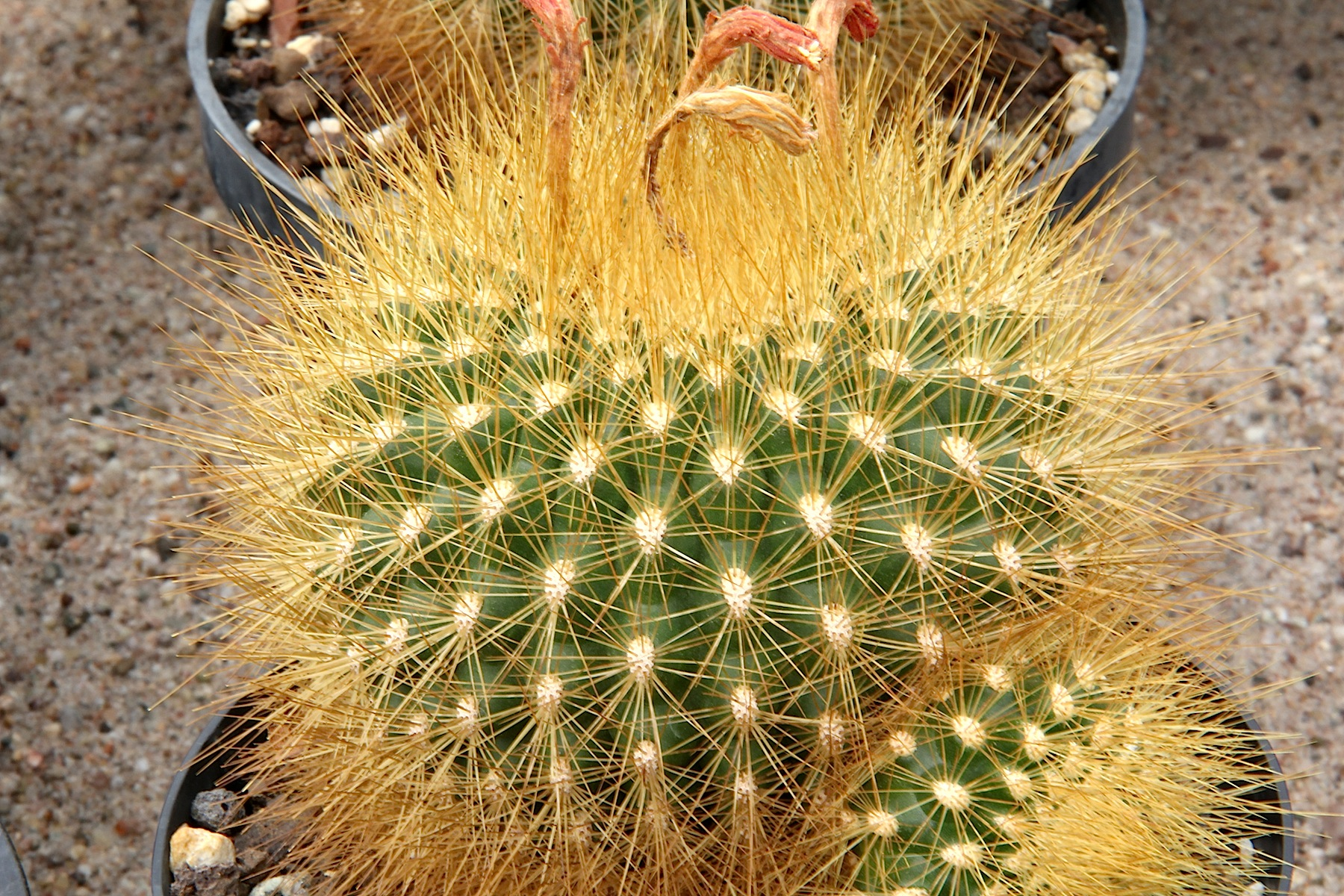 Matucana werberbaueri